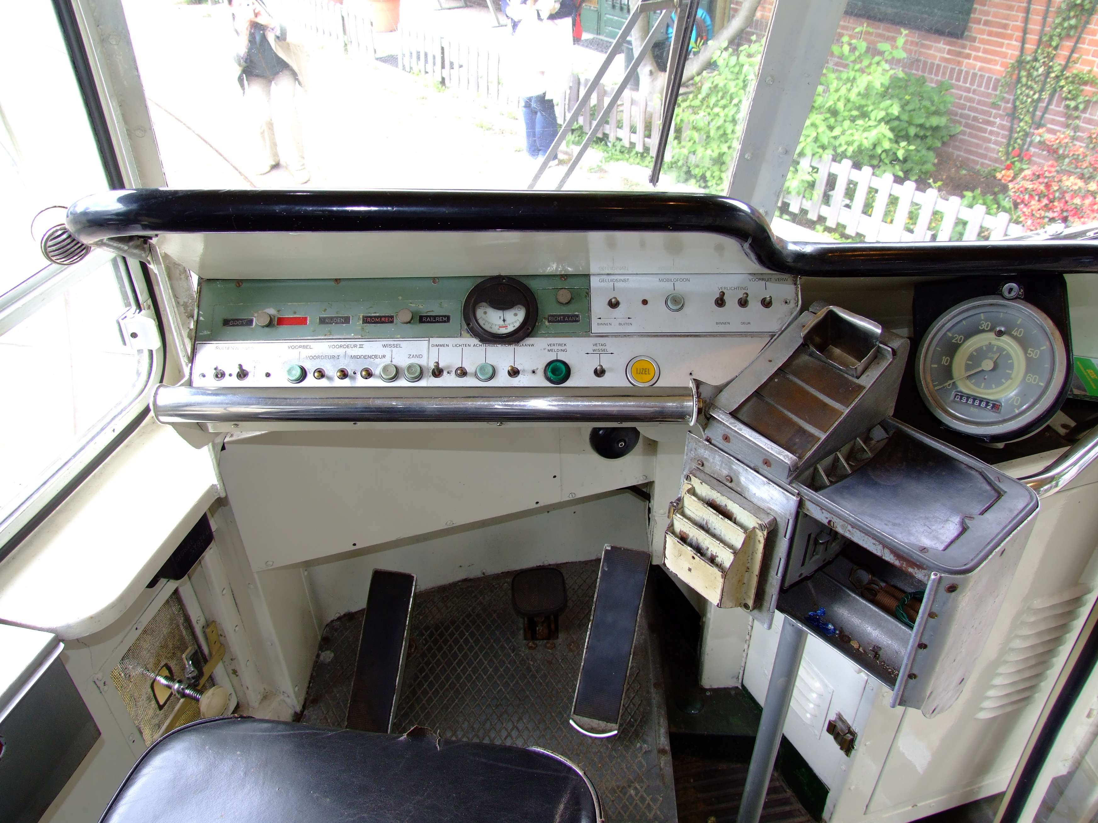 Part of the Electrische Museumtramlijn Amsterdam collection. Museum tram 1024